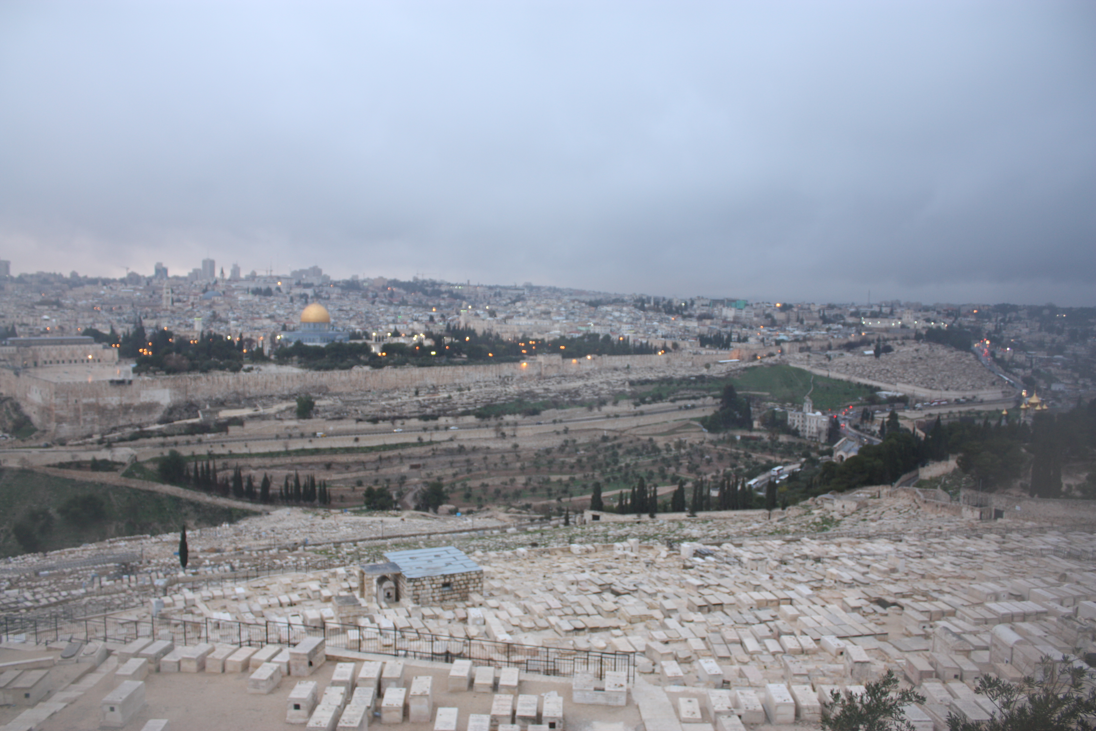 East Jerusalem from the Mount of Olives. In the background is the Old City with the Temple Mount, including the Dome of the Rock, to the left. The Mount of Olives Jewish Cemetery is in the foreground.